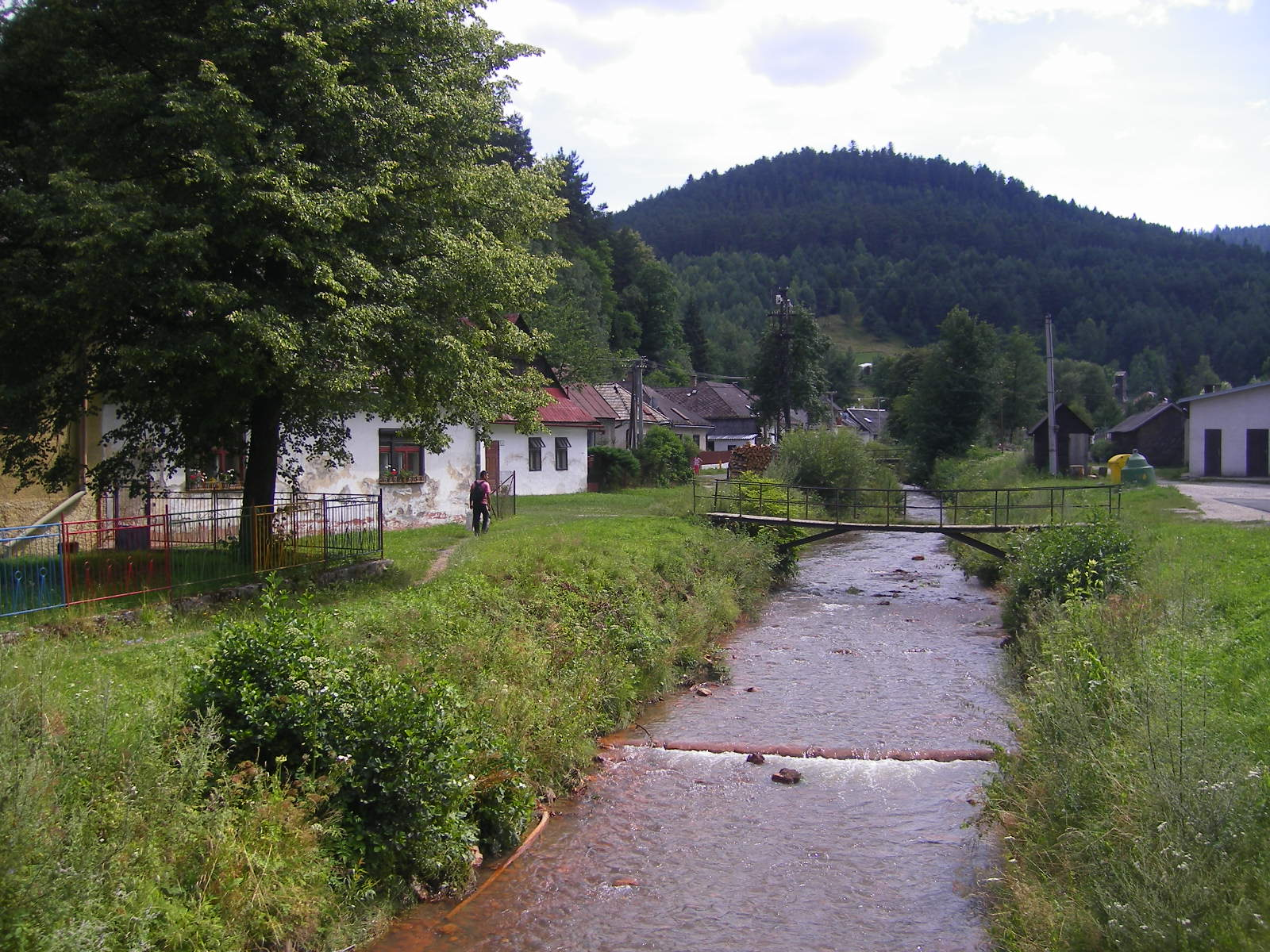 Smolnícka Huta - stream Smolnícky potok in the center of the village